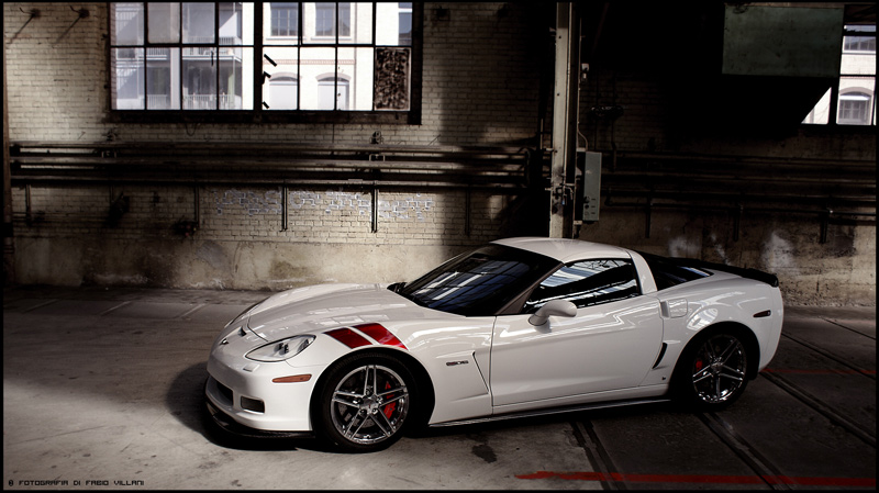 Ron Fellows Chevrolet Corvette Z06